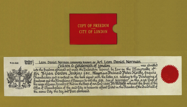 This is a scanned image of the copy of the certificate awarding Freedom of the City of London to Ari Norman.